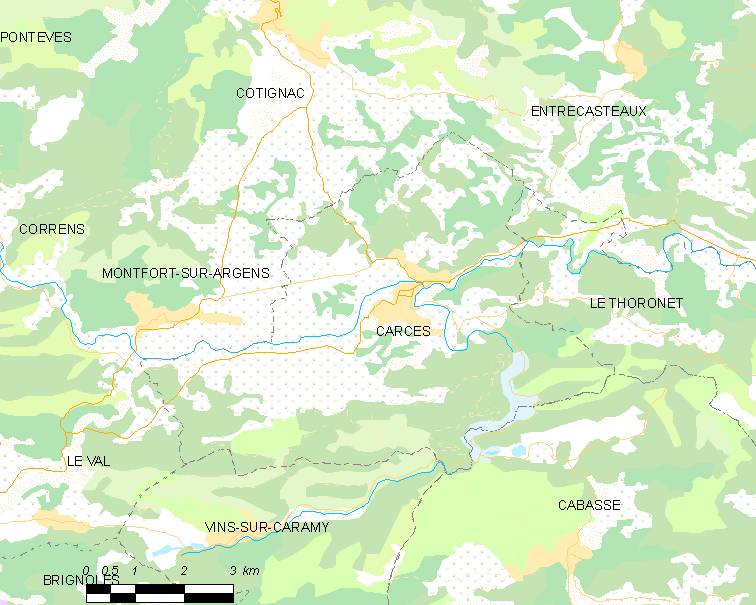 Map of French municipality Carcès